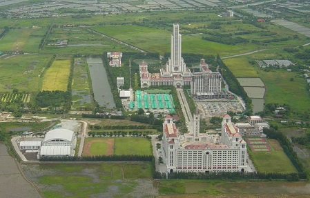 AU Bang-Na Campus